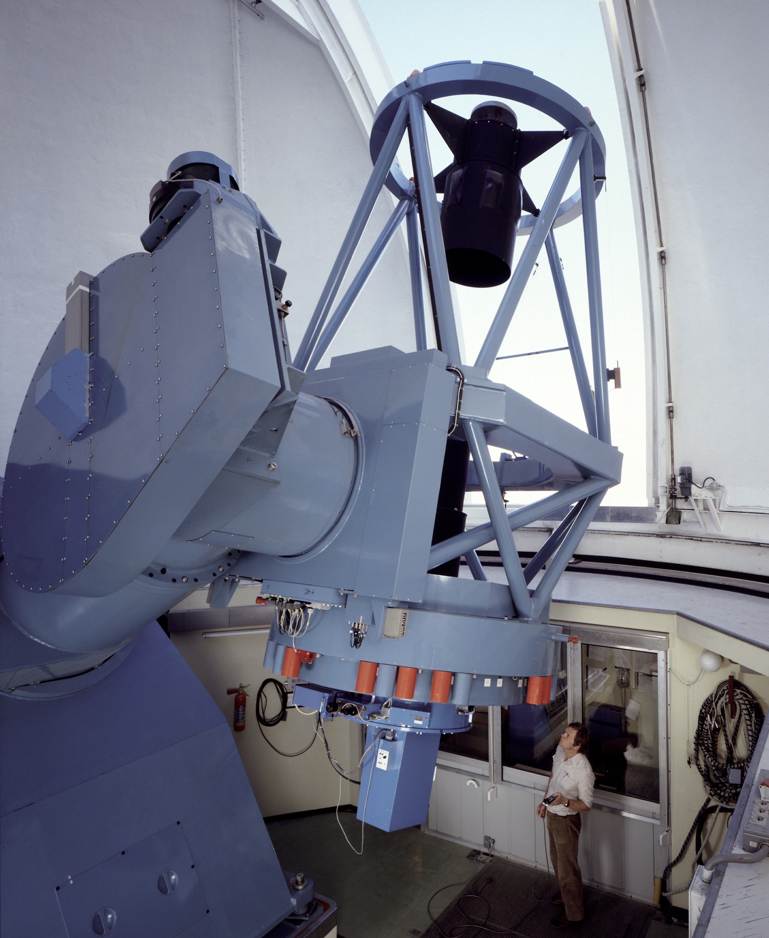 Danish 1.54-metre telescope The Danish 1.54-metre telescope was built by Grubb-Parsons, and has been in use at La Silla since 1979. It is equipped with the Danish Faint Object Spectrograph and Camera (DFOSC) spectrograph/camera that is similar in concept and in layout to ESO's EFOSC2 attached to the ESO 3.6-metre telescope. The telescope has been a real workhorse, and allowed astronomers to make several first. In 2005, thanks to the Danish 1.54-metre telescope astronomers showed that short, intense bursts of gamma-ray emission most likely originate from the violent collision of two merging neutron stars, ending a long debate. While in 2006, astronomers using a network of telescopes scattered across the globe, including the Danish telescope, discovered an exoplanet only about 5 times as massive as the Earth, and circling its parent star in about 10 years. It was the smallest at the time and the first rocky exoplanet discovered. Credit: ESO/C.Madsen